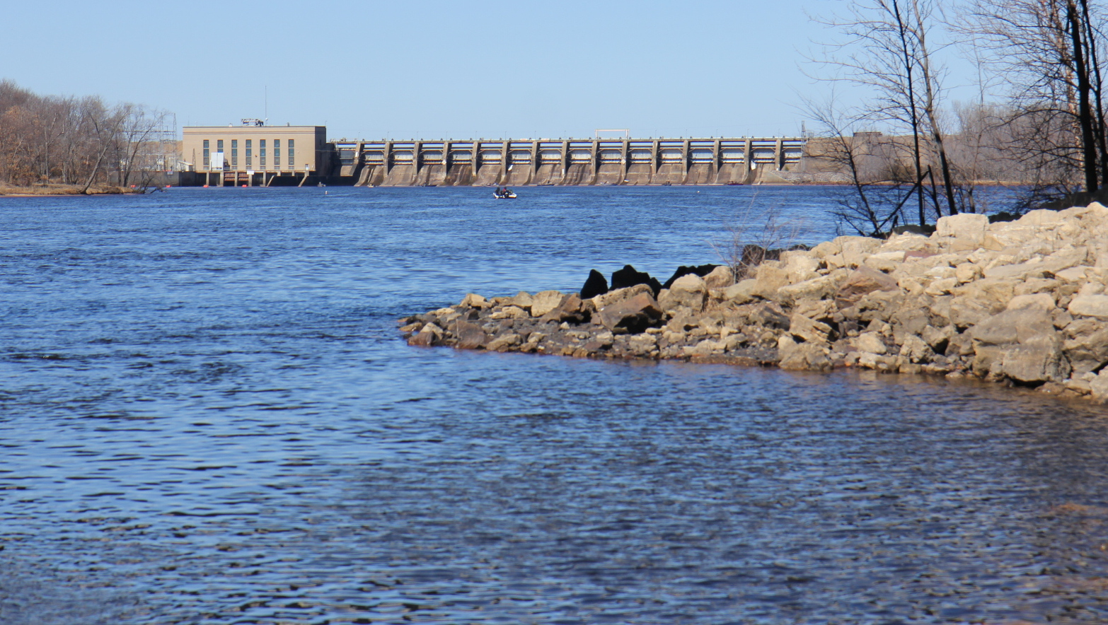 The dam which forms Petenwell Lake. Photographed from downstream.